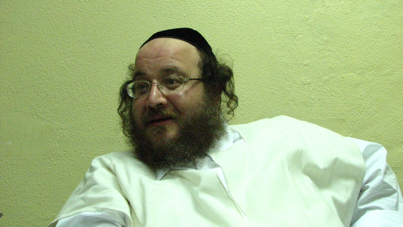 Rabbi Avraham Yerachmiel Rabinowitz, the Ostrova-Biala Rebbe of Jerusalem